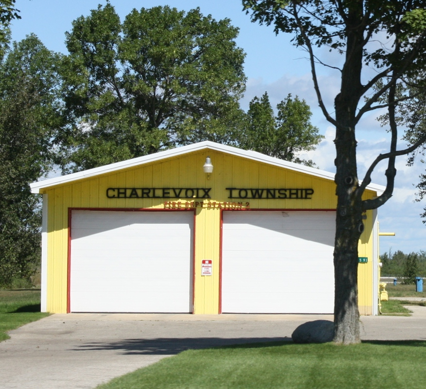 The fire department for Charlevoix Township, Michigan on U.S. Route 31.